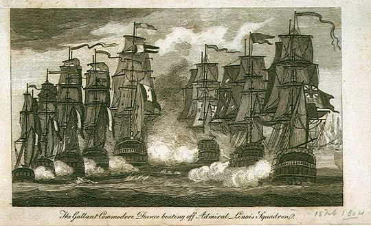 The Gallant Commodore Dance beating off Admiral Linois Squadron